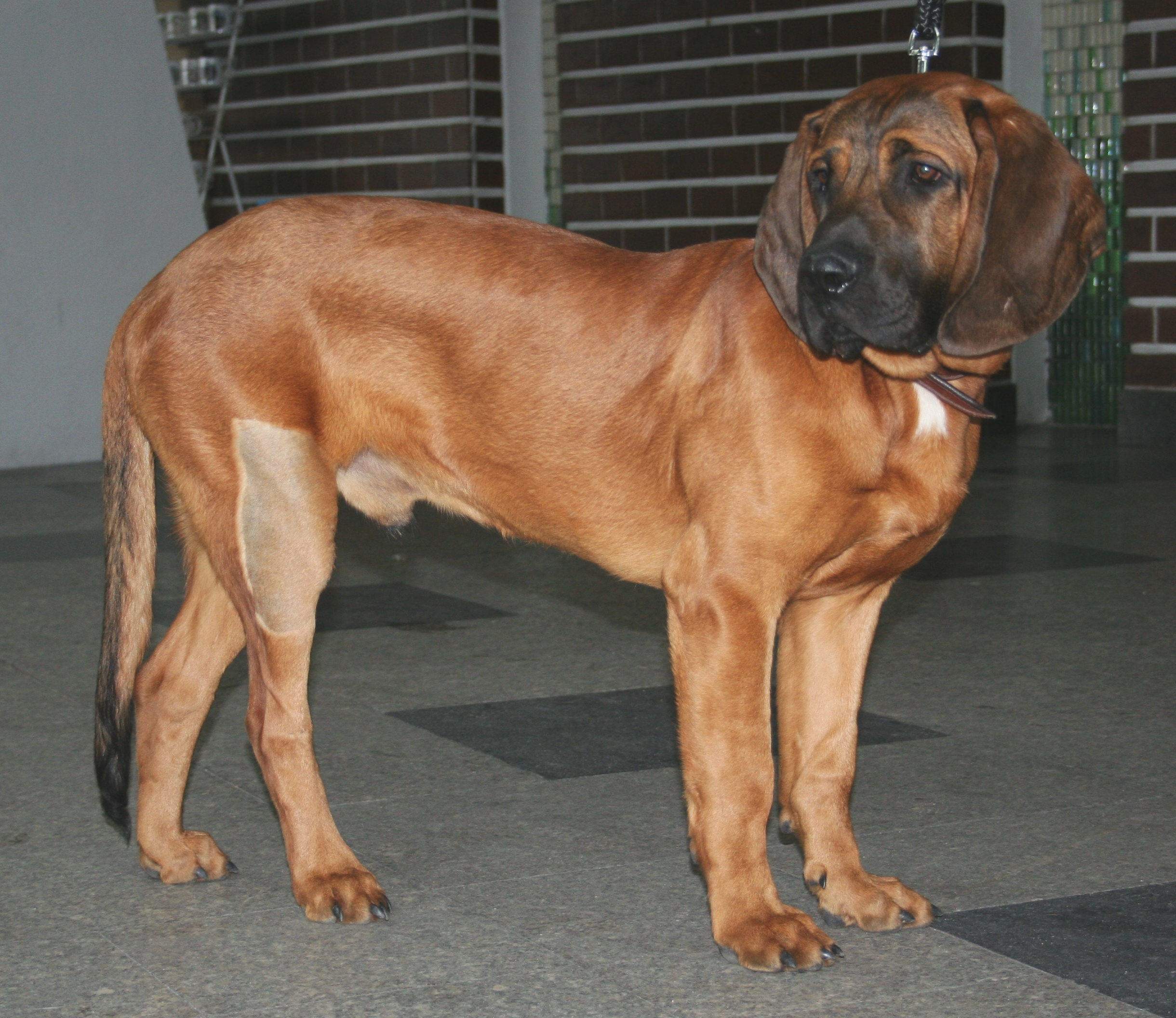 Hanover Hound "BODO Olsztyńska Leśniczówka" during the international dogs show in Katowice, Poland. The owner is Piotr Giemzik from Poland.